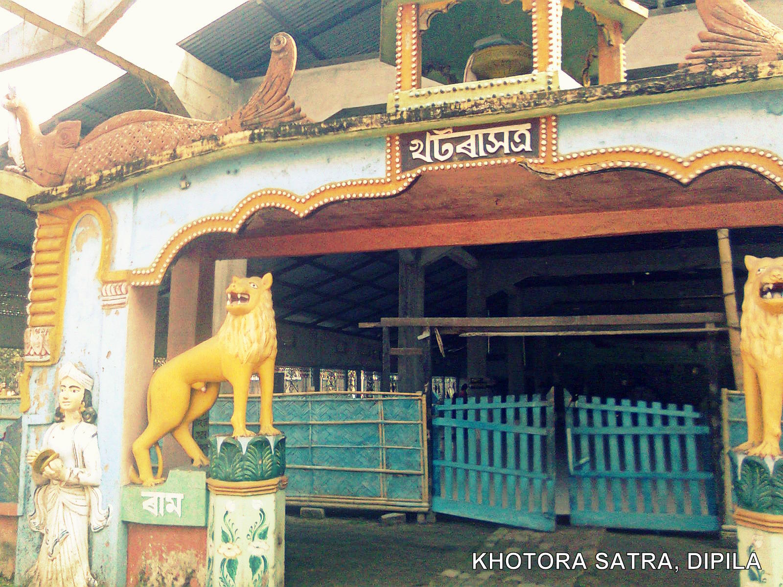 Gate of Khatara Satra